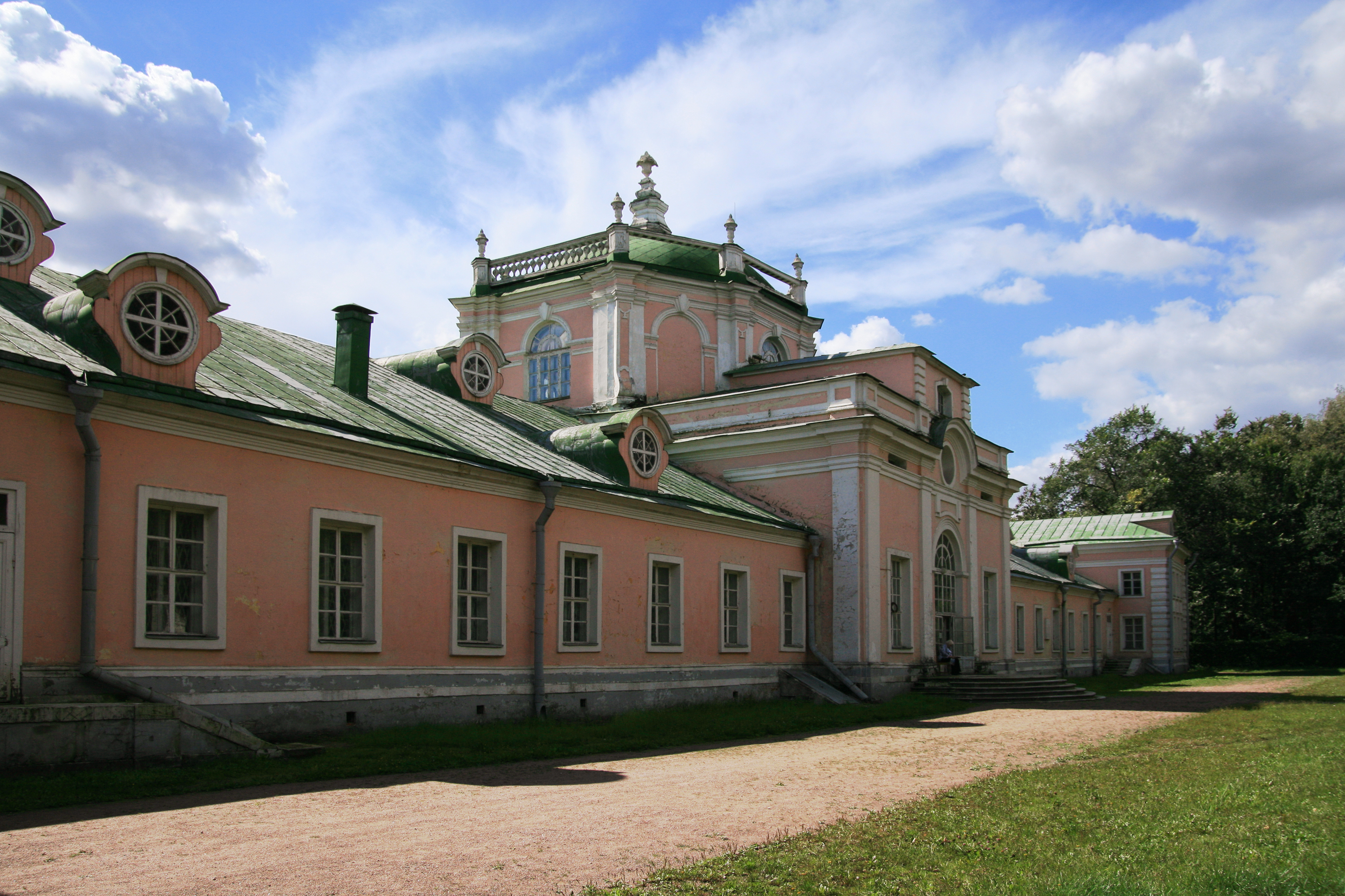 The Orangerie (back side), 1761-1763, Kuskovo Estate, Moscow